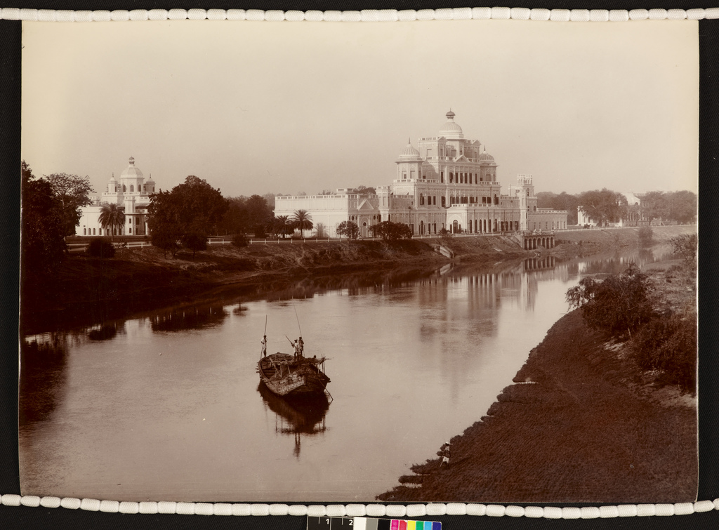 Bara Chattar Manzil from the Gomti River, Lucknow